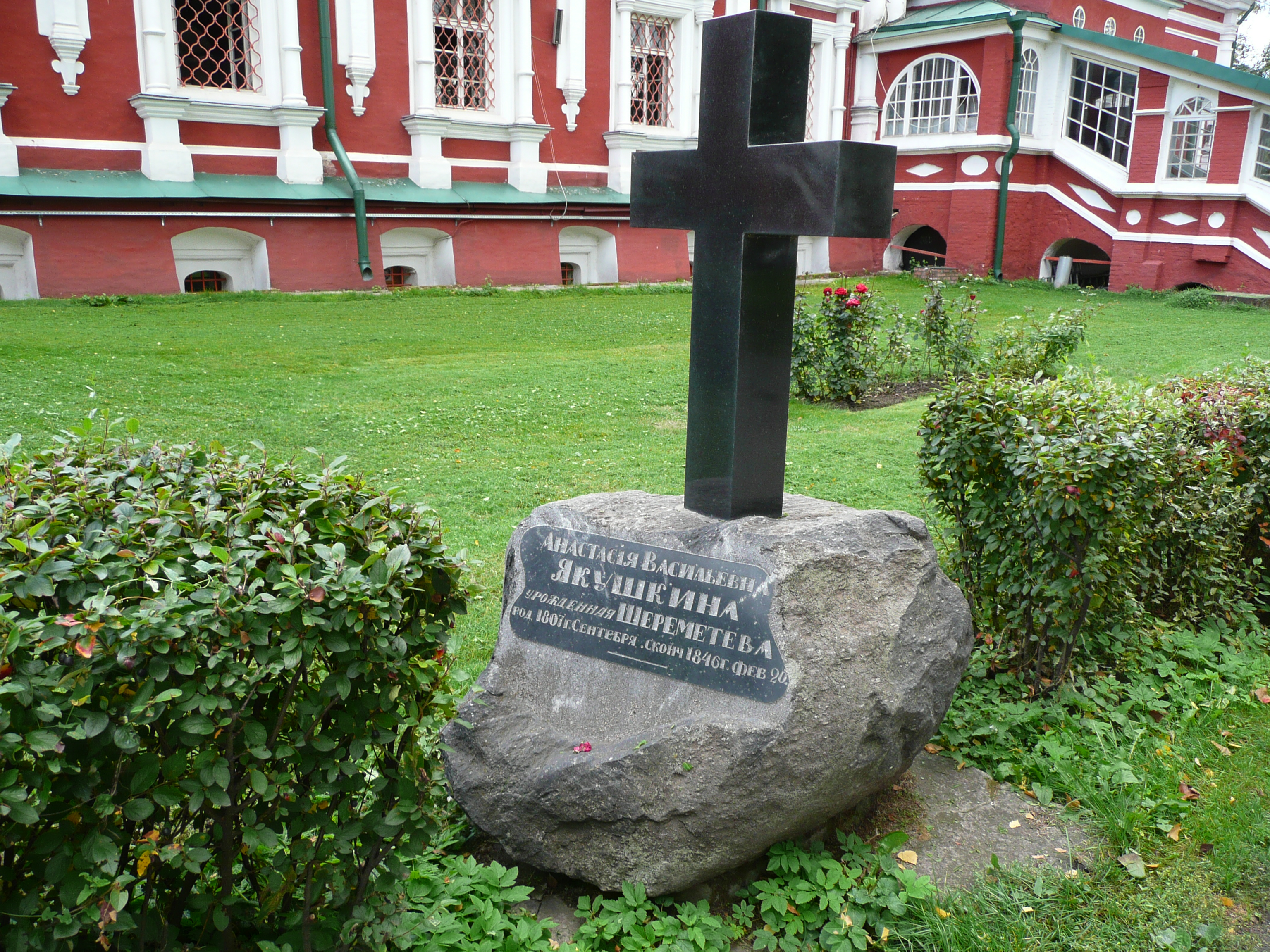 Tomb of Anastasia Yakushkin (nee Sheremetev) at the Novodevichy Convent, Moscow